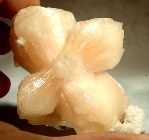 Stilbite Locality: Jalgaon District, Maharashtra, India (Locality at ) You just have to take Indian minerals seriously when they get this exquisite - a large CROSS consisting of two intergrown, doubly-terminated stilbites of a delicate peachy-pink color. It is complete ALL AROUND and perched on a small base of stalactitic quartz, to boot. A striking and desirable specimen by any standards, head and shoulders above the mass of zeolite specimens, and certainly deserving of a place in a fine collection whereas we might look down on many others. 8.5 x 6.5 x 3.8 cm